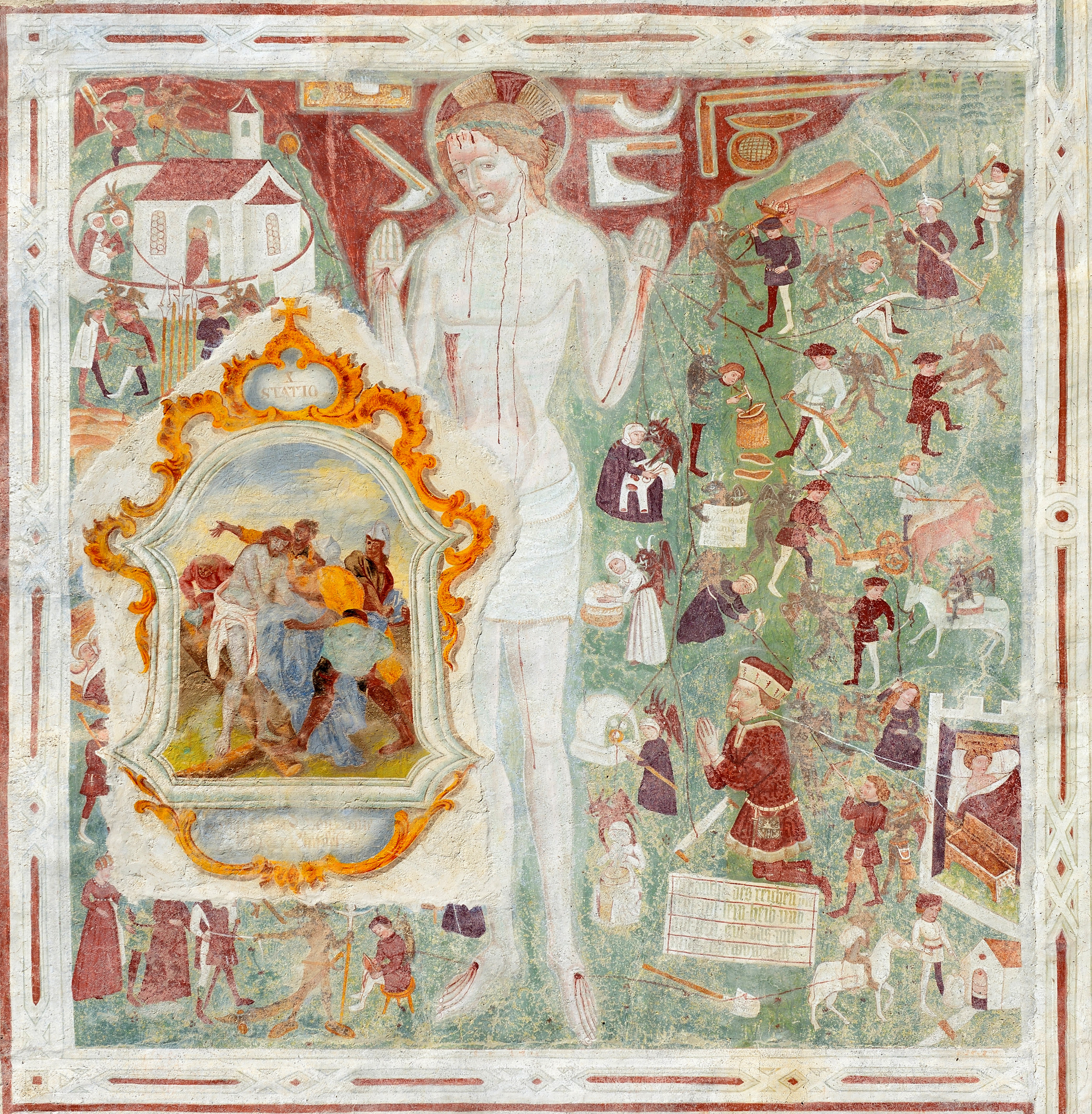 10th Station of the Cross: Jesus is stripped of his garments, 18th century fresco, painted over a medieaval fresco. The latter fresco dates around 1450. It represents Ja Sunday Christ surrounded by people engaged in various activities and persecuted by the devil because they don't observe the Sunday as Holy day of obligation and as the day of the Lord. Southern wall of the Saint James church in Urtijëi, Val Gardena